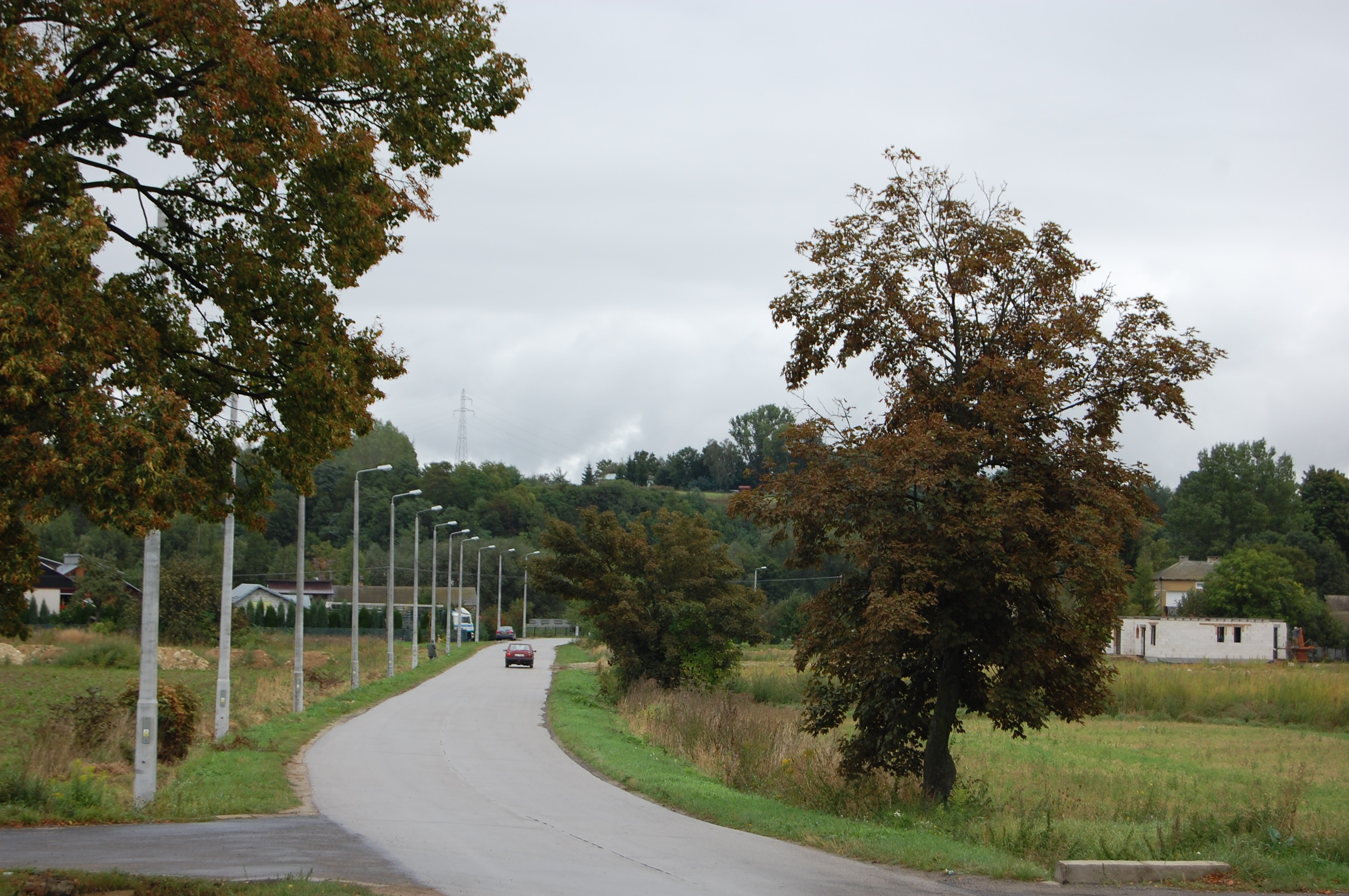 Pliszczyn